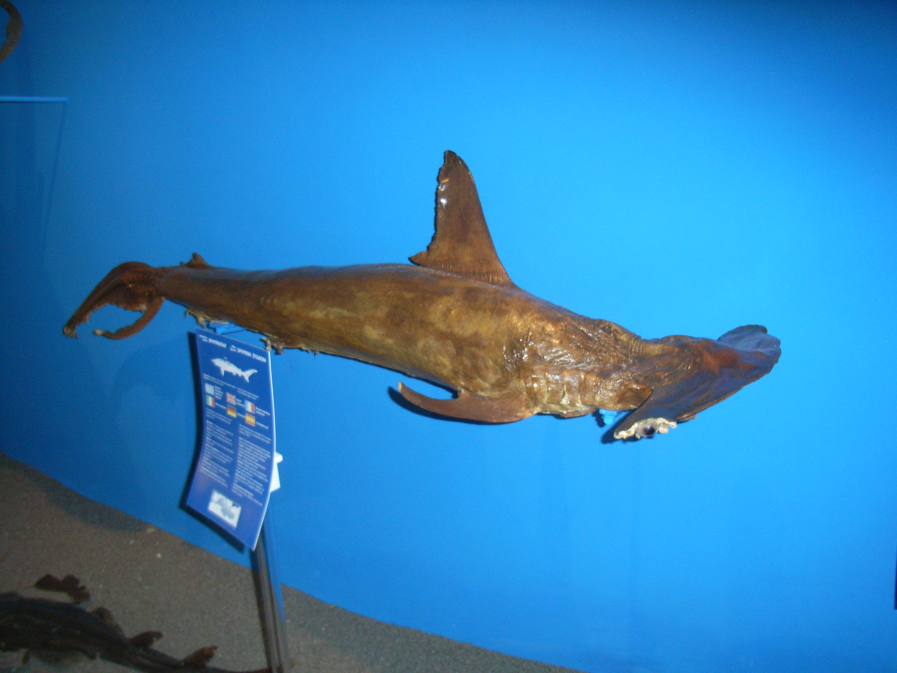 Sphyrna zygaena in the Museum of the Rhodes Aquarium